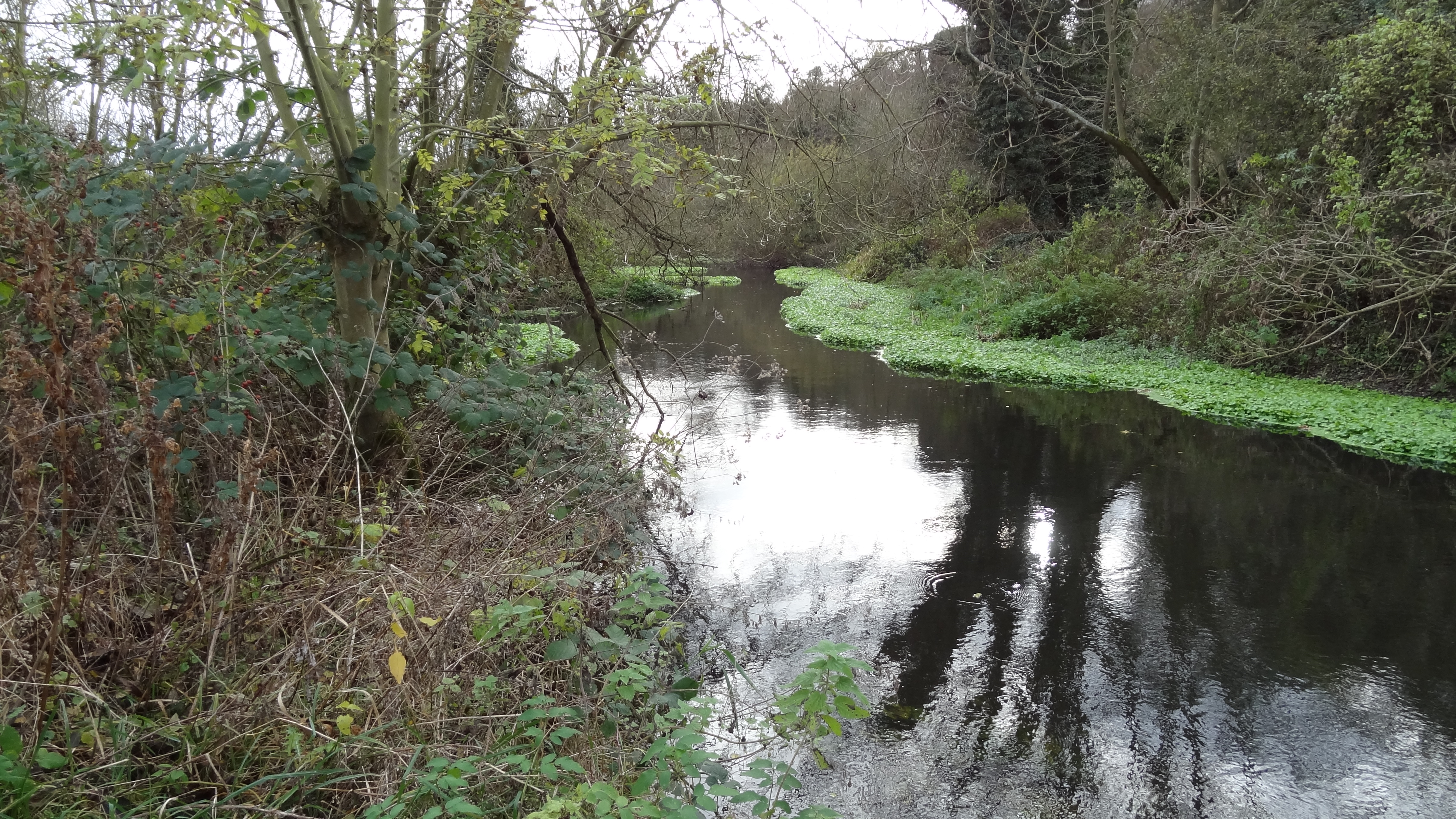 River Colne in Mid Colne Valley SSSI, Harefield, London and Denham Buckinghamshire border